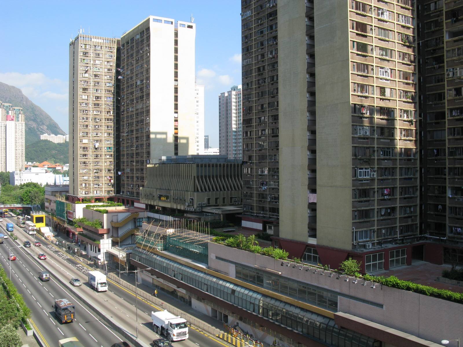 Lower Wong Tai Sin (II) Estate & Wong Tai Sin Shopping Centre